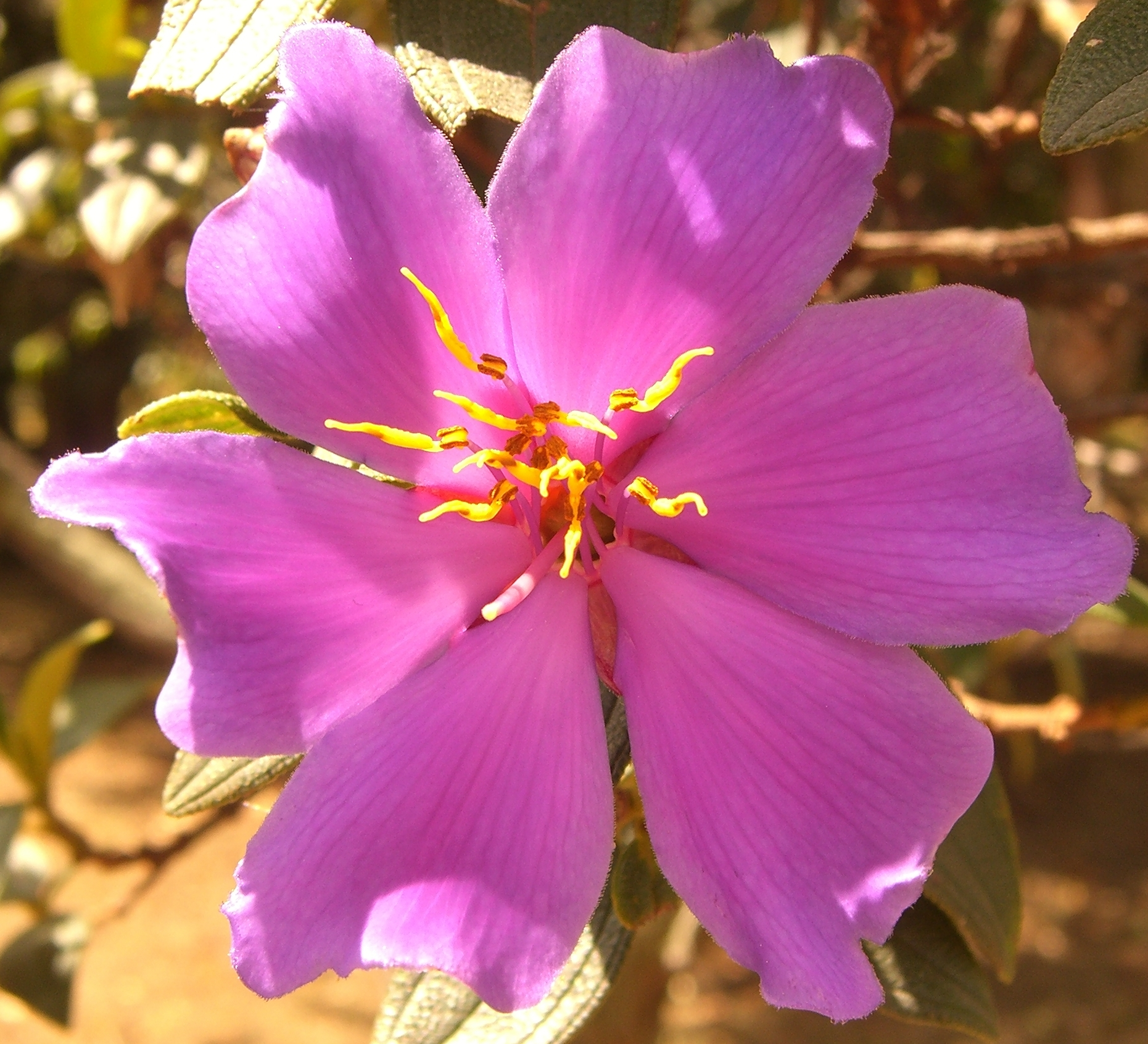 Please report references to .